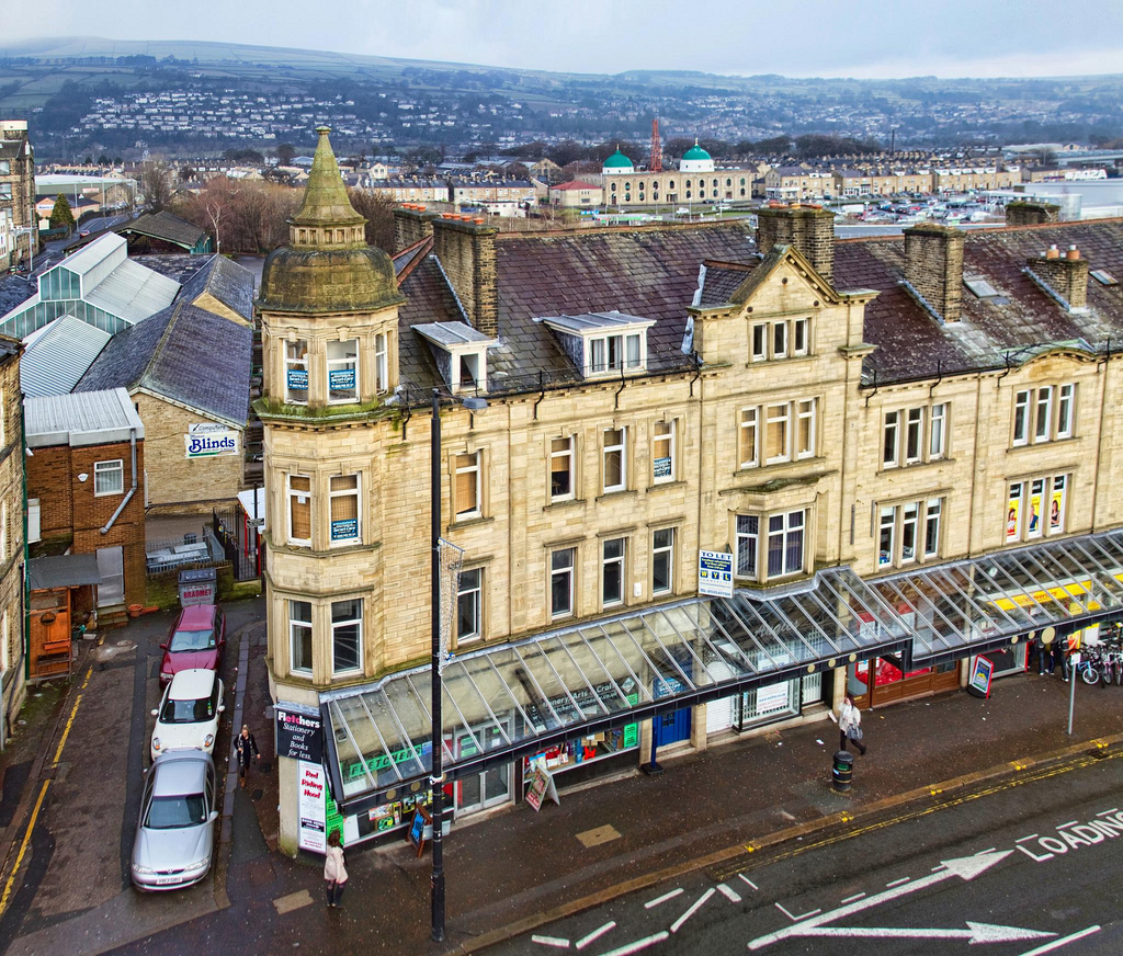 Once upon a time, Cavendish Street was merely a narrow footpath cutting across an old town field, which was widened and redeveloped in the late 19th century. It eventually became a grand Victorian shopping street, the facades of which were intended to impress visitors as they arrived from the new Keighley train station, opened in 1883. At this time, the town was one of the busiest and wealthiest in Yorkshire. All of the new buildings were ornate and worthy of a town of such wealth and prestige as a result of its industrial might, and reflect the strong sense of civic pride that had developed in the area. This image can be found in its original resolution online in this set of images.